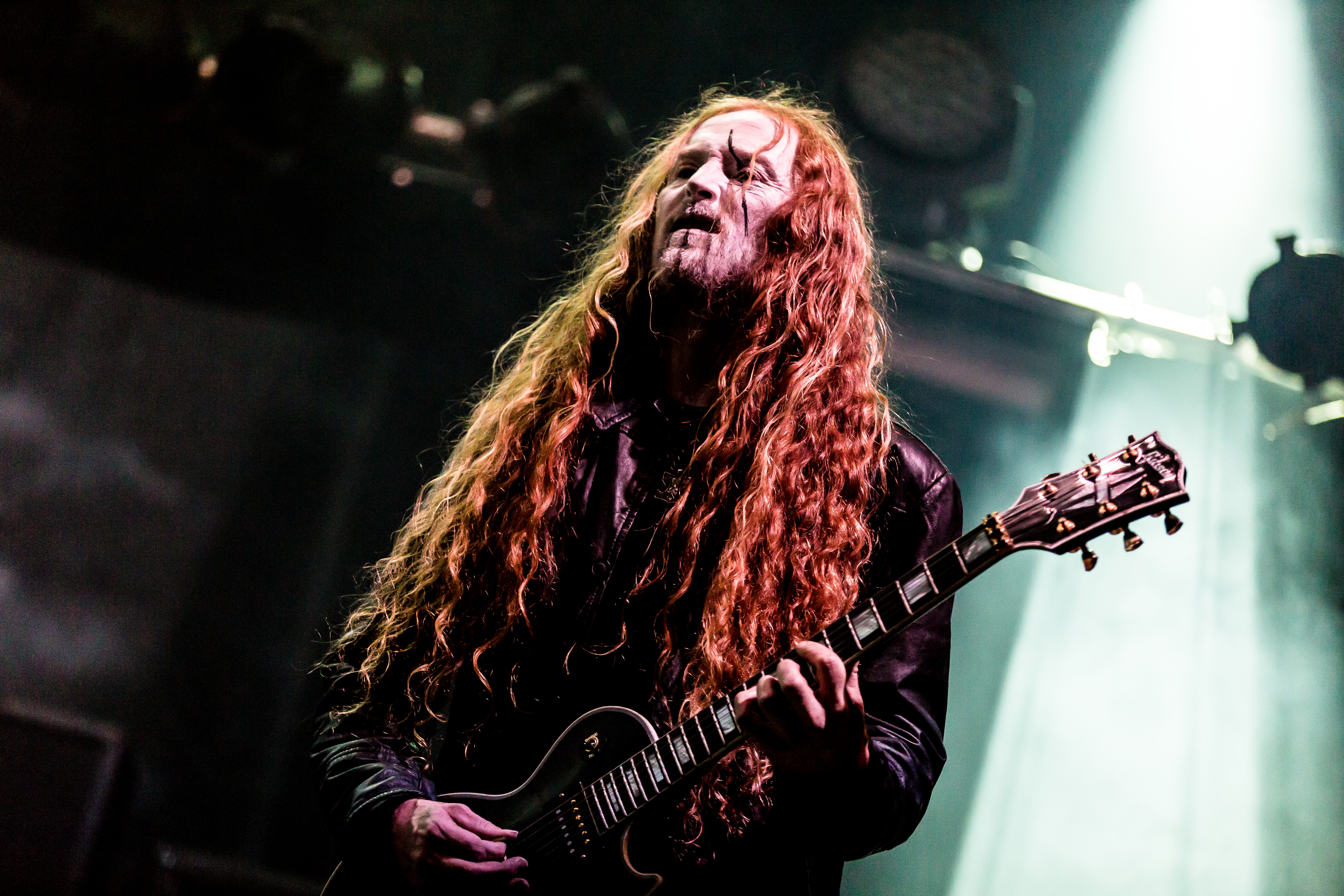 The Norwegian black metal band Abbath at the Party.San Metal Open Air 2016 in Obermehler-Schlotheim/Germany.